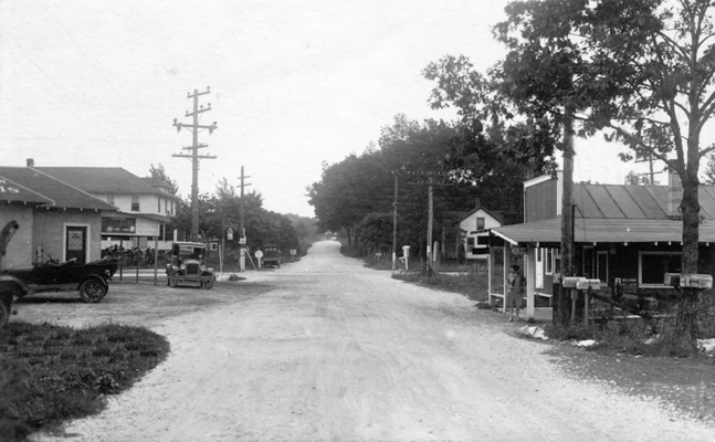 This view looks south down County Road 100 East. Present day US Highway 12 is the crossroad seen in the middle of this photograph. The large white building on the left side of the photograph (behind large power transmission pole) is the Tremont Hotel. The Old Indian Medicine Man business was located in the dark, white-trimmed building on the right (behind mail boxes) at some point shortly after this photograph was taken. The South Shore Line's Tremont Station would have been located behind the photographer.